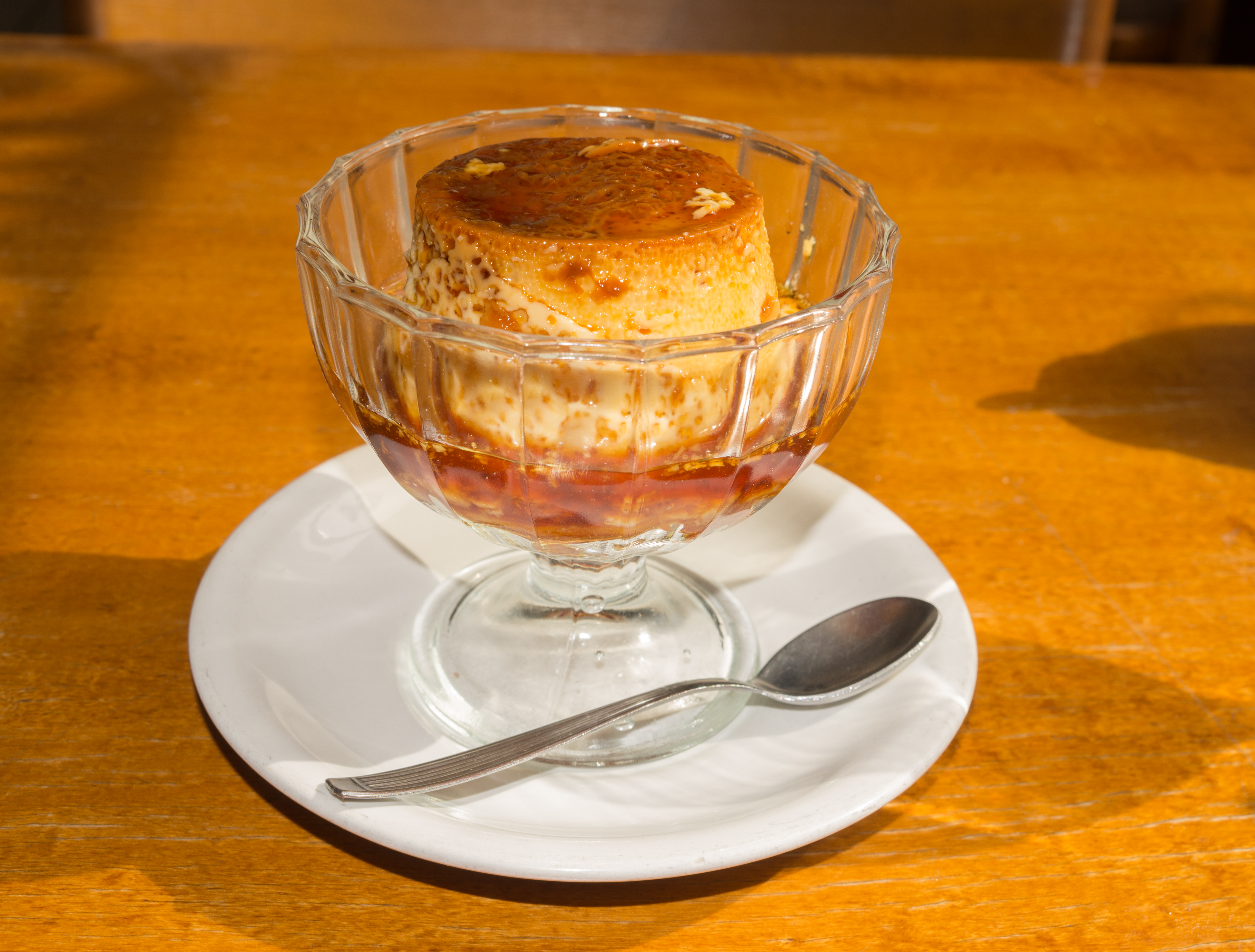 Crème caramel, Mar del Plata, Argentina